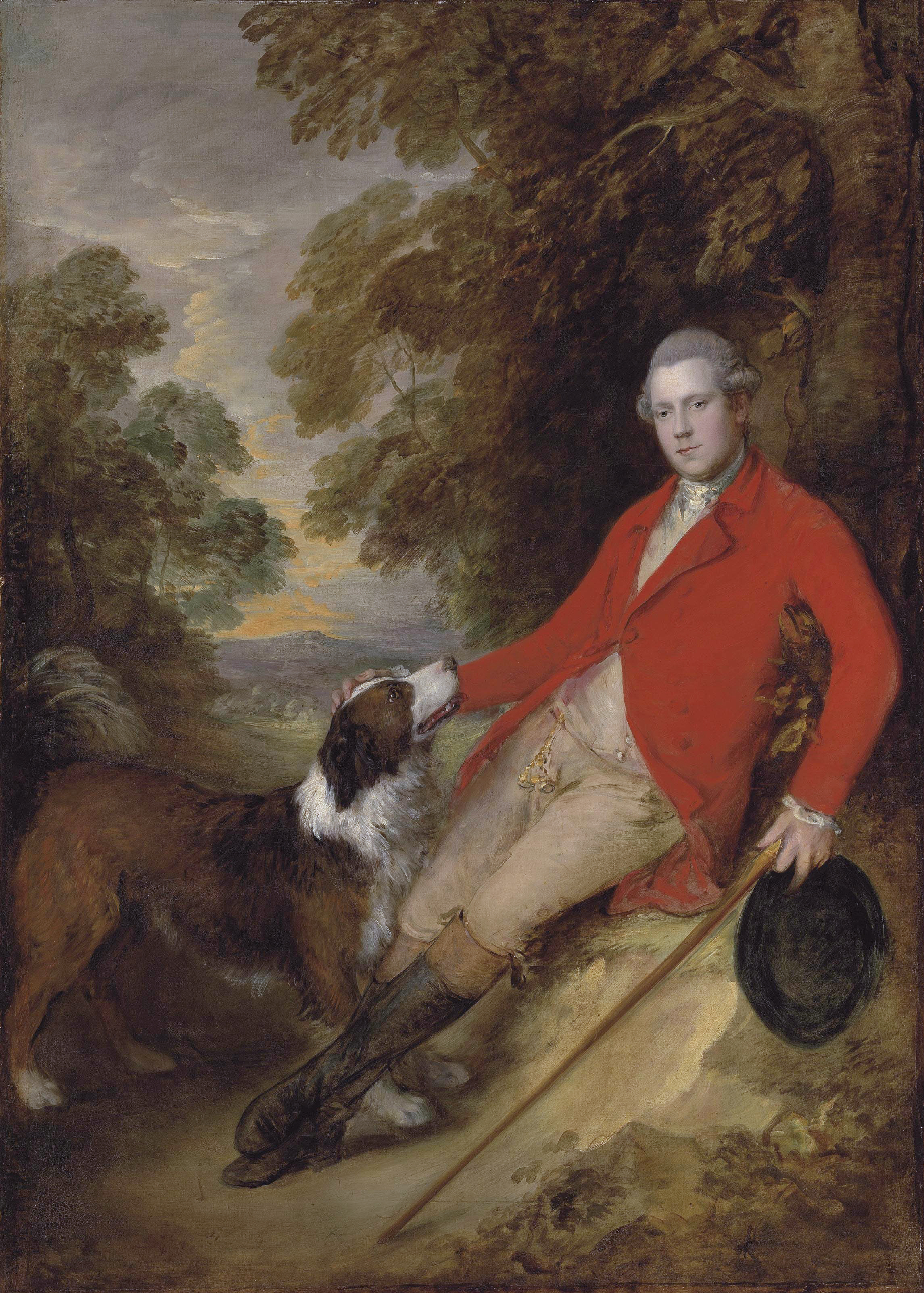 Philip Stanhope, 5th Earl of Chesterfield (1755-1815)